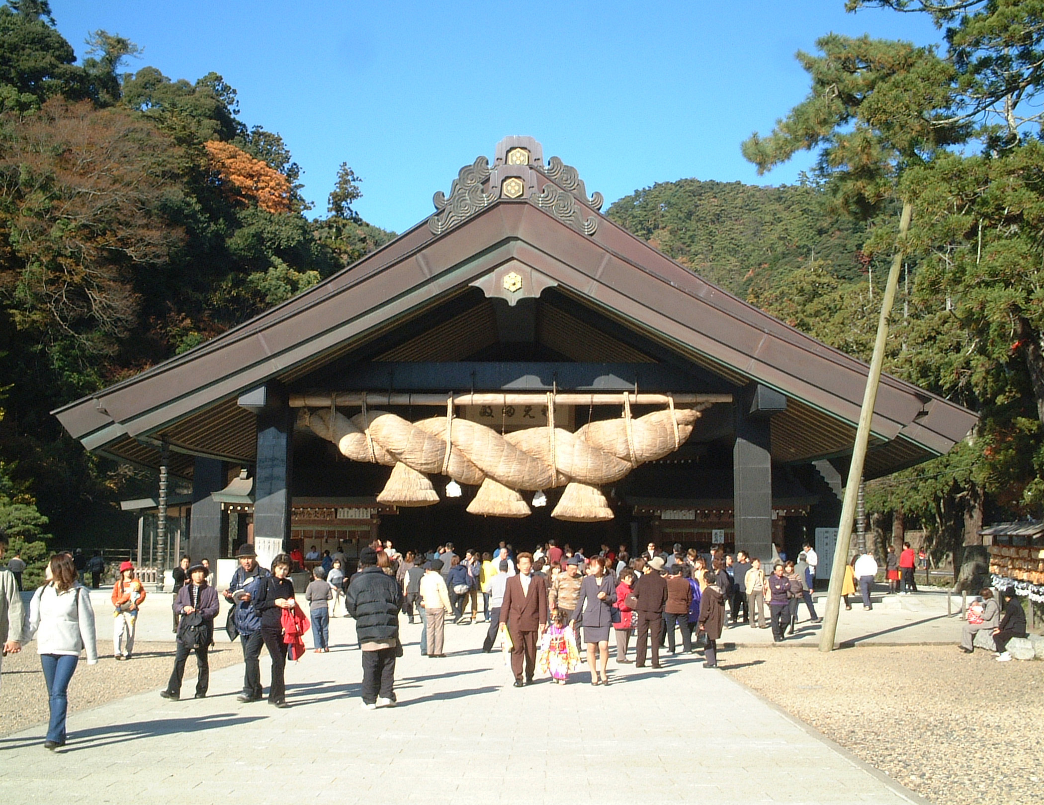 Izumo Taisya Kaguraden. Photo taken in Izumo Japan.